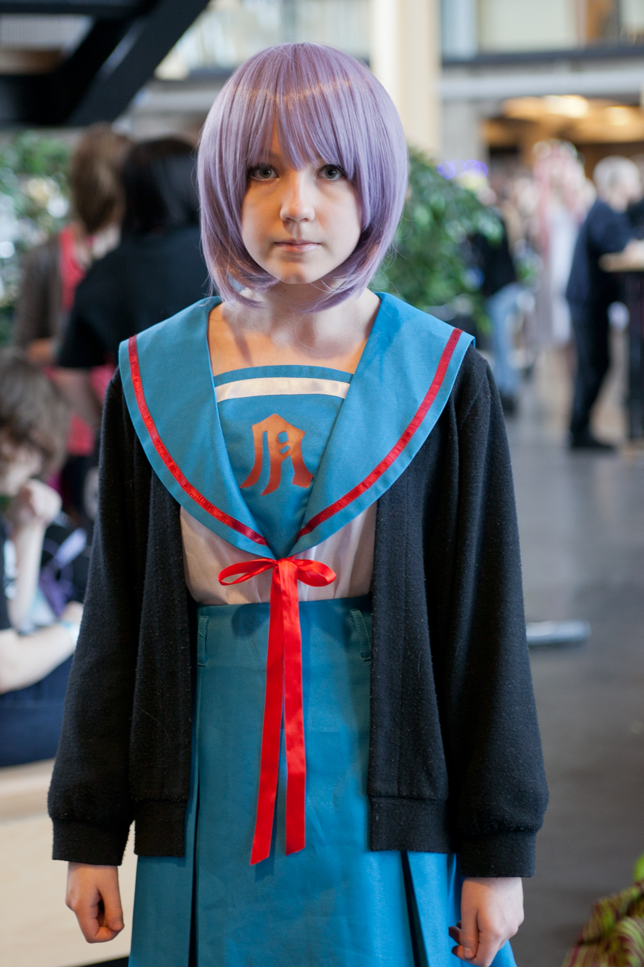 Cosplayer of Yuki Nagato from Haruhi Suzumiya series at Desucon Frostbite 2013.